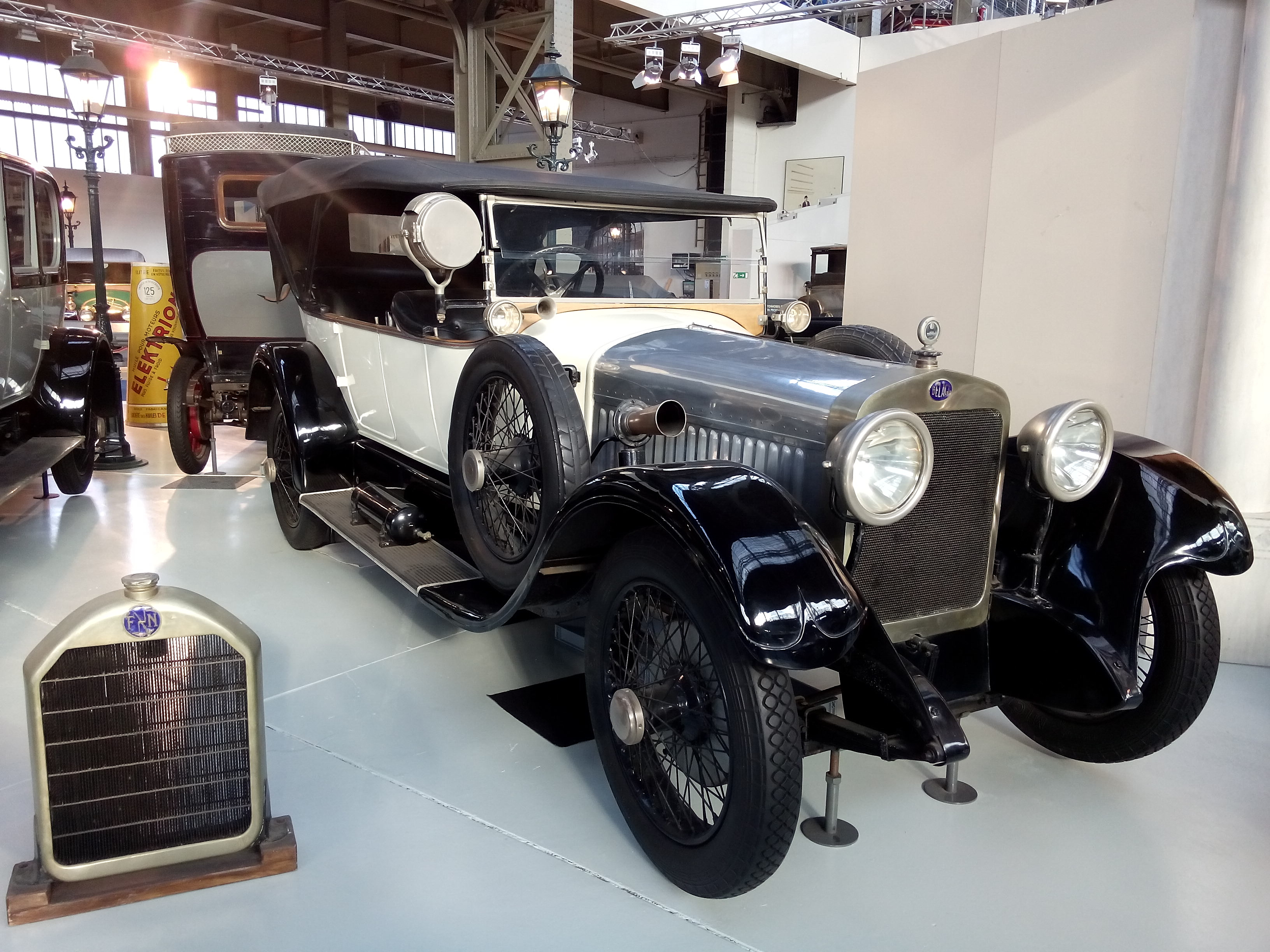 With this chassis, Delage entered the luxury car market in the 1920s. With its sporting tourer body, this large car had four-wheel brakes.